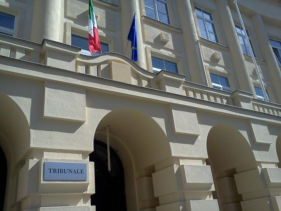 Italian flag hanging on the building of the District Court of Mladá Boleslav, Czech Republic (Czech signs and the Coat of Arms were removed by the filmmakers).